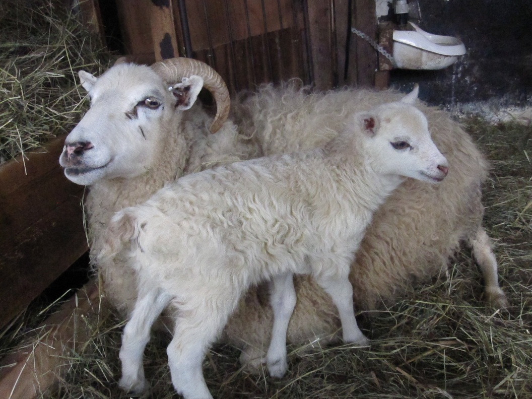 White sheep with a lamb